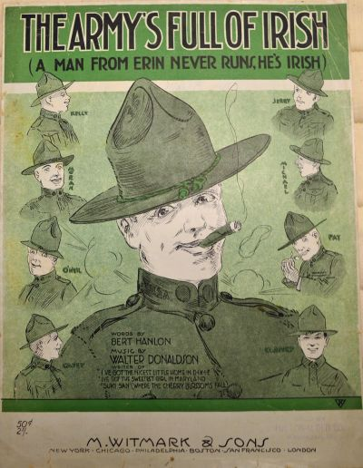 Cover Art